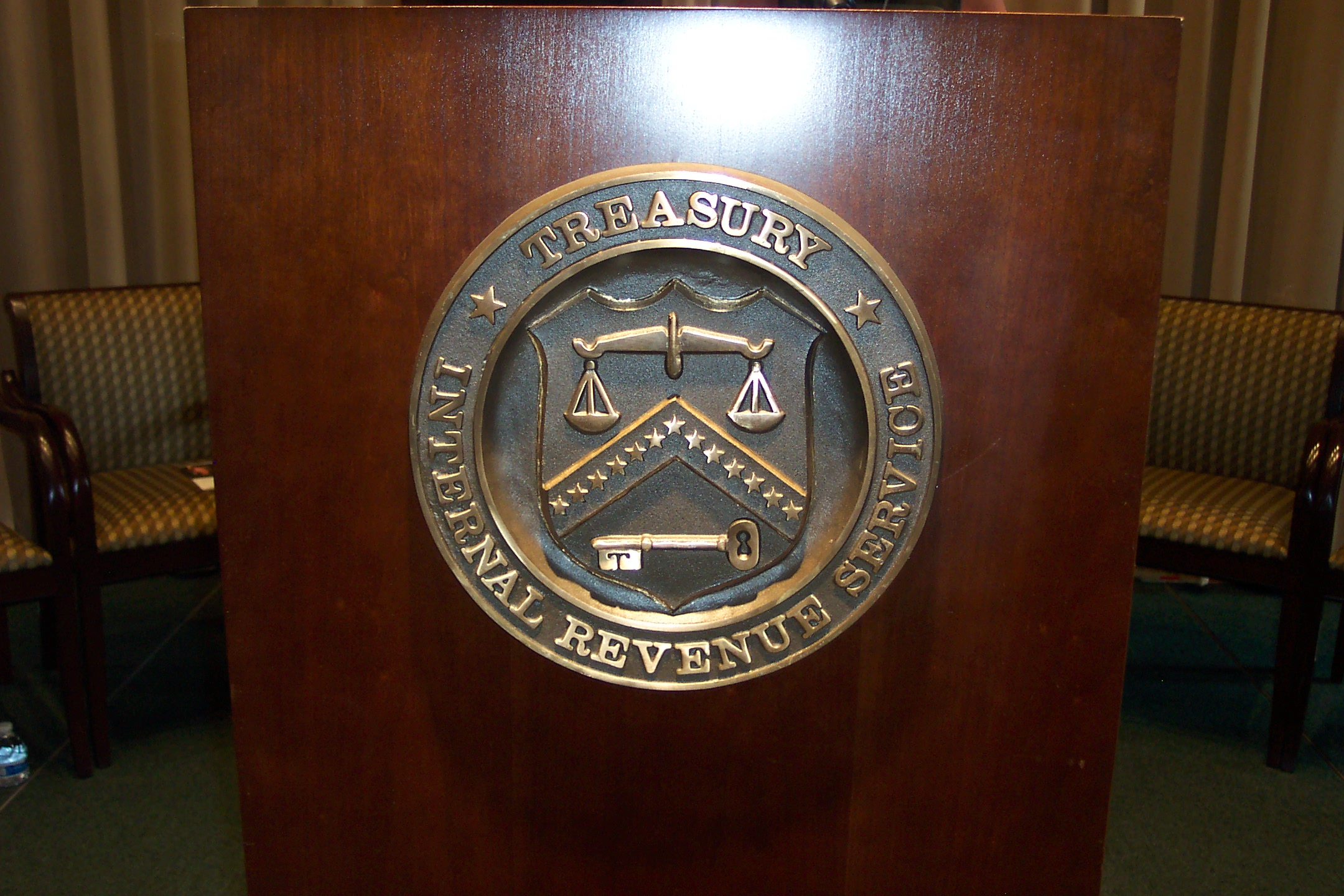 The symbol of the Department of the Treasury at the retirement reception of Beth Tucker